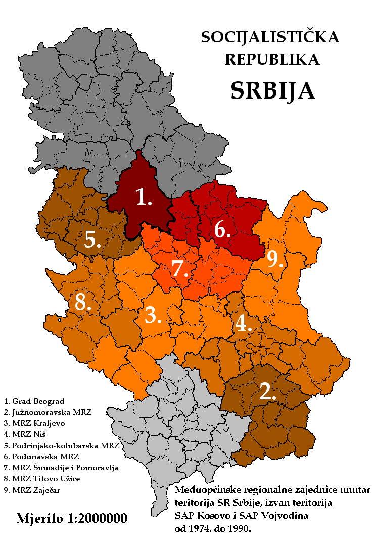 Intermunicipal regional communities of The Socialist Republic of Serbia outside of The Autonomous Province of Kosovo and of The Autonomous Province of Vojvodina that existed from 1974. to 1990.